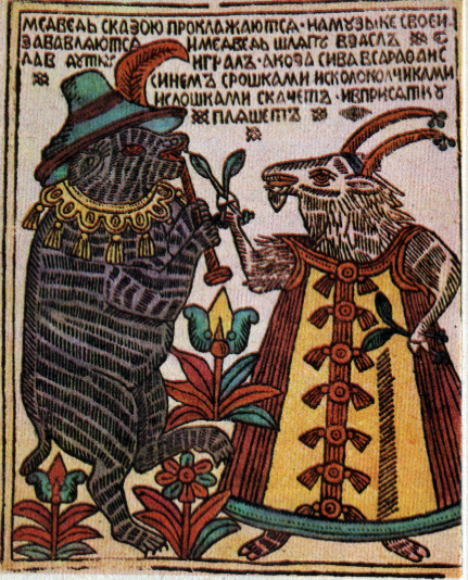 Lubok, A bear and a goat cooling off.